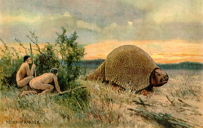 Glyptodon.